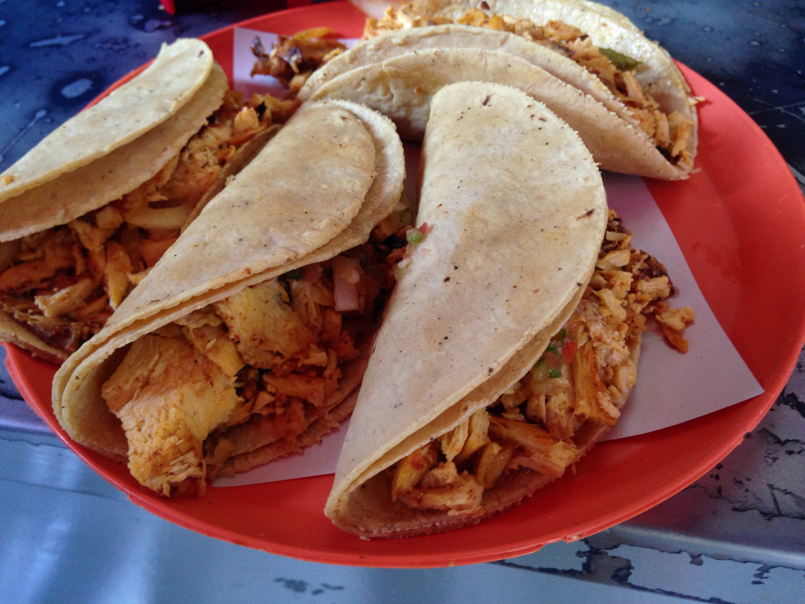 Roast chicken tacos served at Mexico City